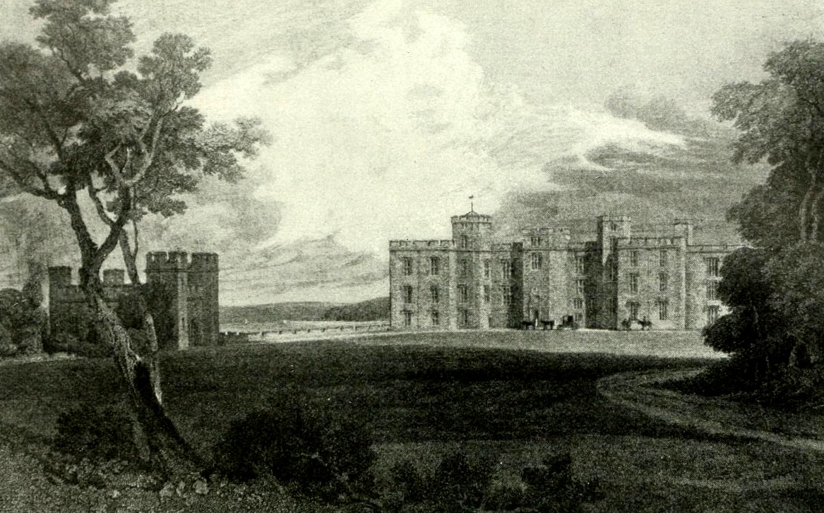 An engraving of Dunster Castle, 1800